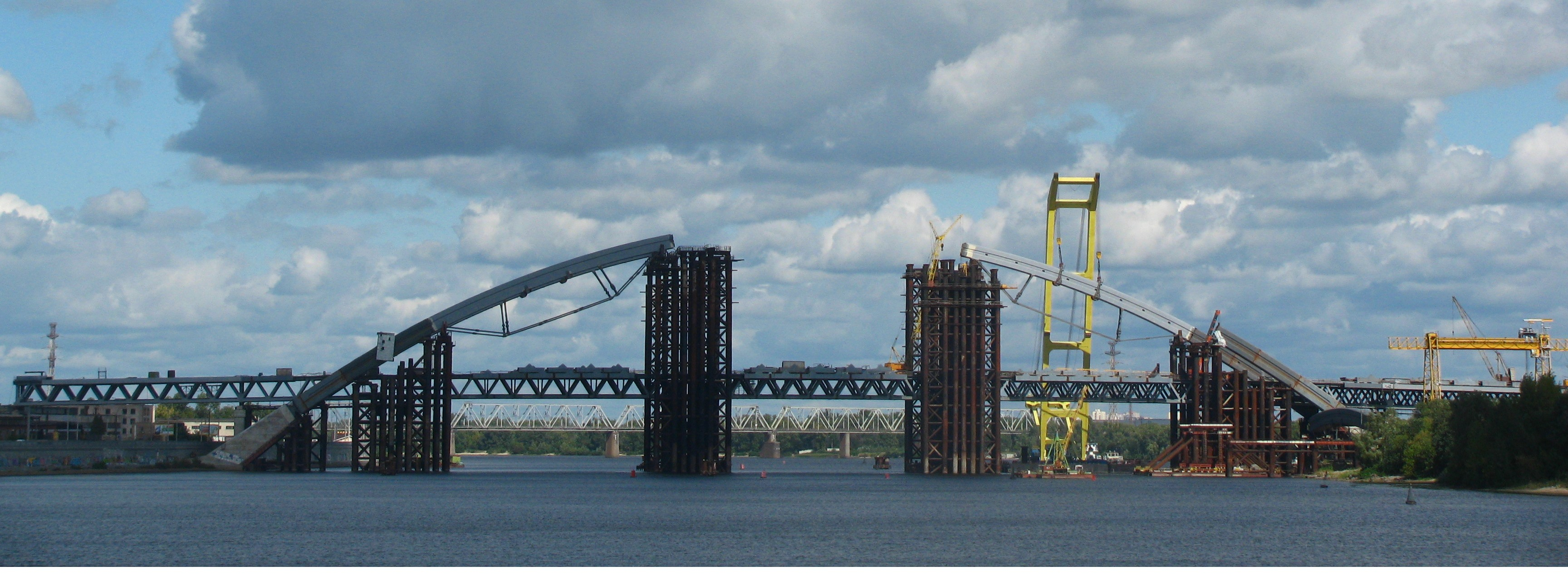 Podilsko-Voskresensky Bridge in Kiew